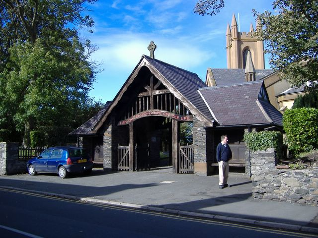 Lychgate, Kirk Michael, Isle of Man Entrance to St Michael and All Angels church. The lychgate was built in 1907, the foundation stone was laid by Lord Raglan.